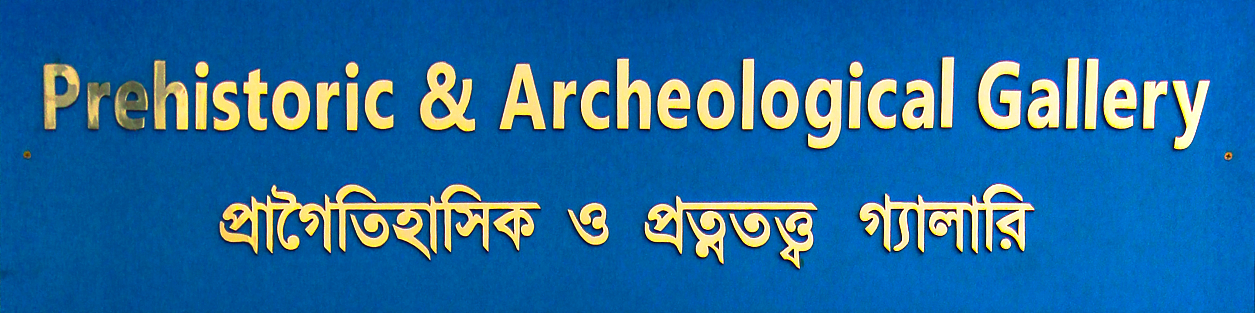 Prehistoric & Archeological Gallery nameplate of Chittagong University Museum